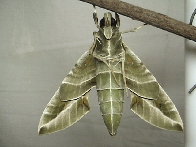 Oleander Hawkmoth (Daphis nerii)